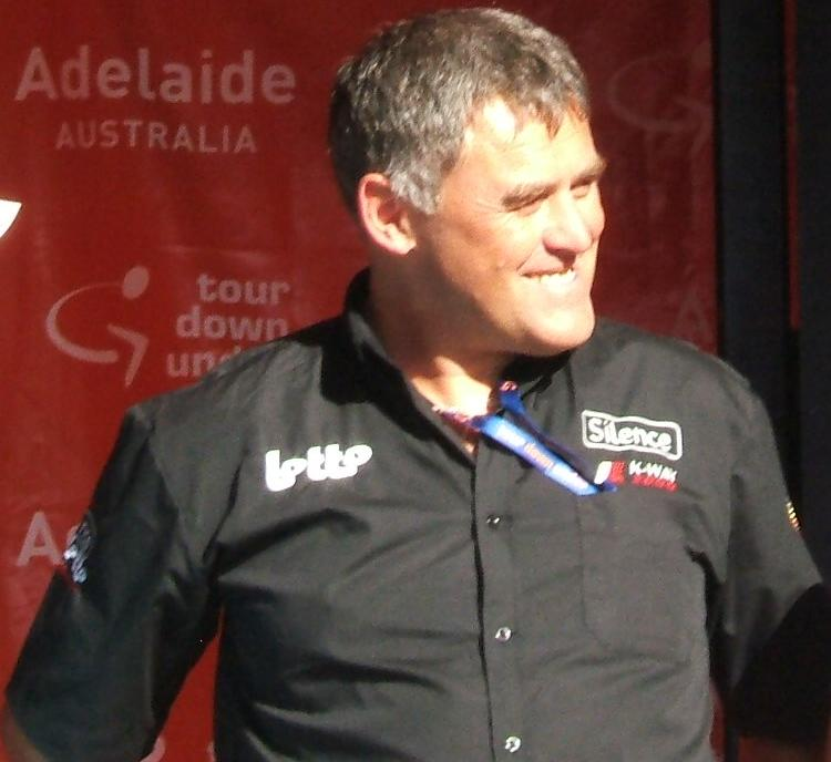 Named cyclist at the en:2009 Tour Down Under team presentation